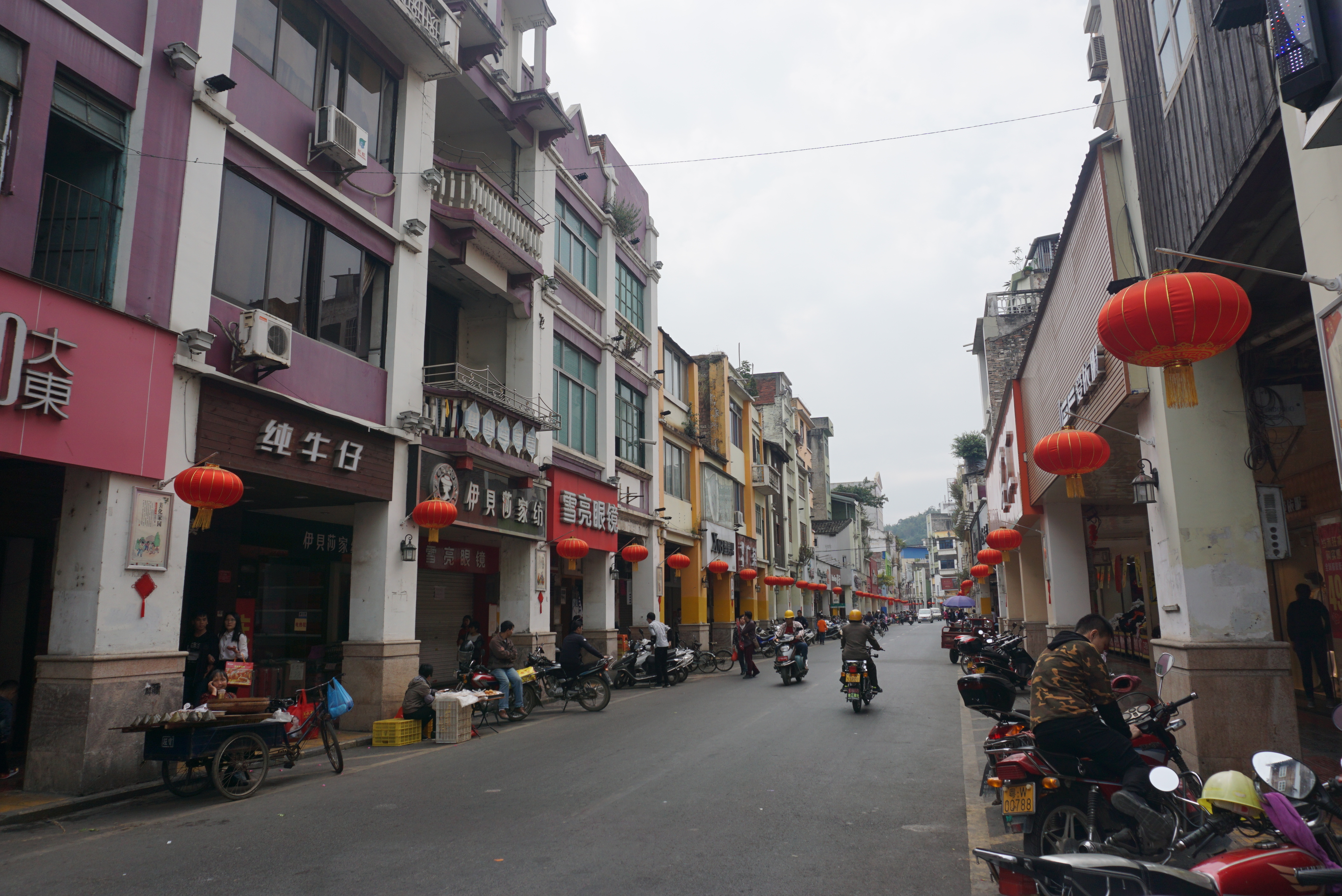 Verandas on Zhongshan Road in Ducheng Town, Yunan County, Yunfu, Guangdong Province